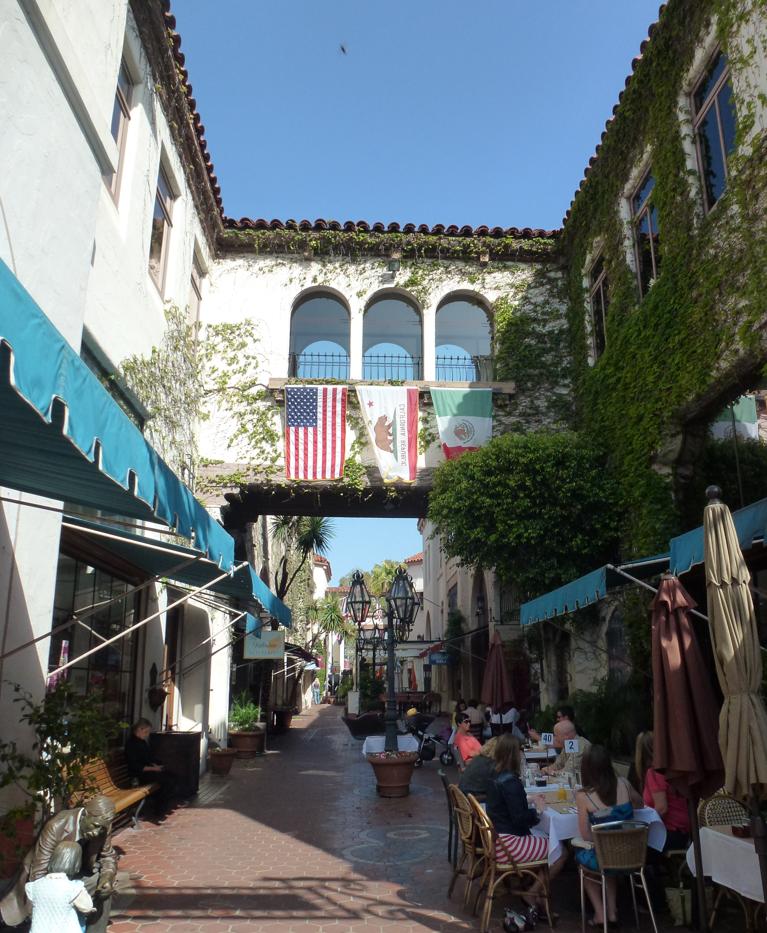 Santa Barbara city in Santa Barbara County, California, United States.